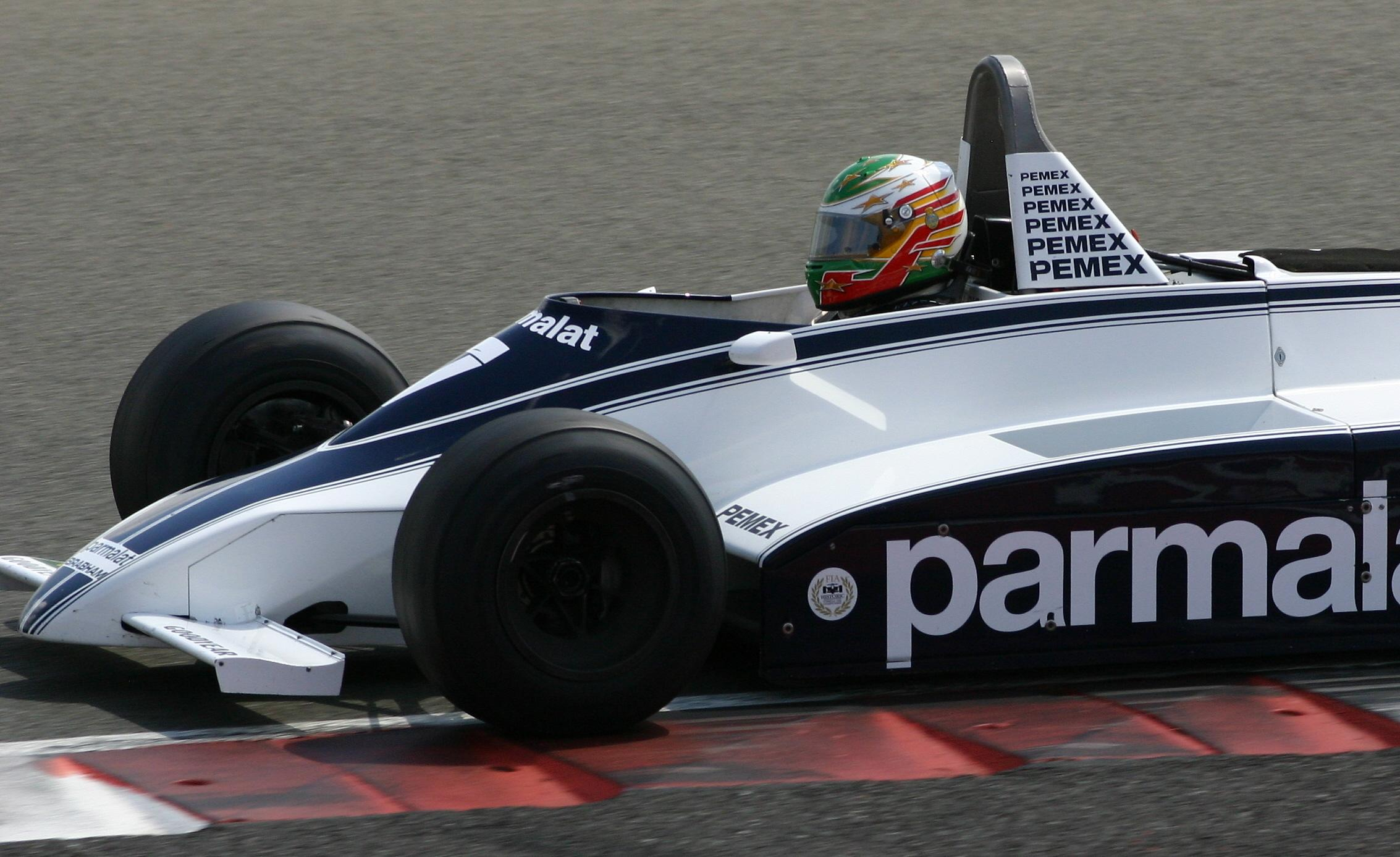 The Brabham BT49C at the 2008 Silverstone Classic race meeting.